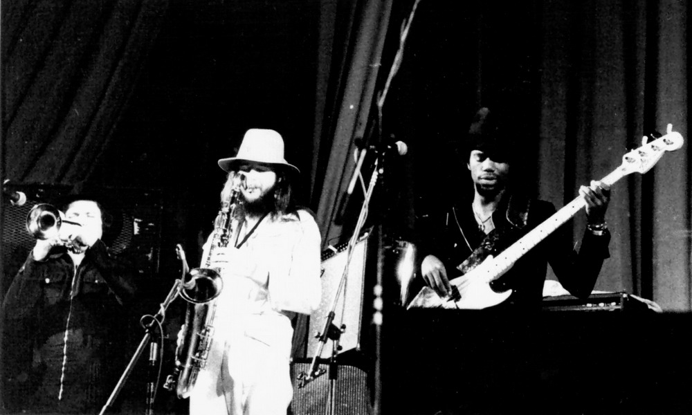 Peter Martin (tp), Paul Dunmall (ts) and Robert "Bobby" Howard (bass) in Johnny "Guitar" Watson's orchestra in Paris, France